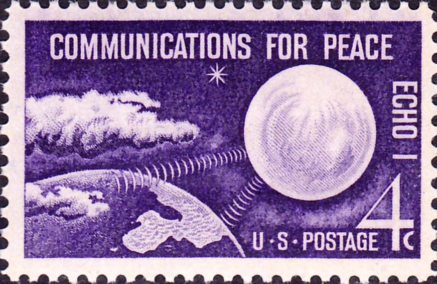 US Postage stamp Echo I